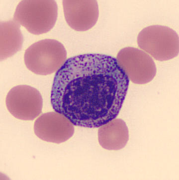 Myelocyte surrounded by Erythrocytes.